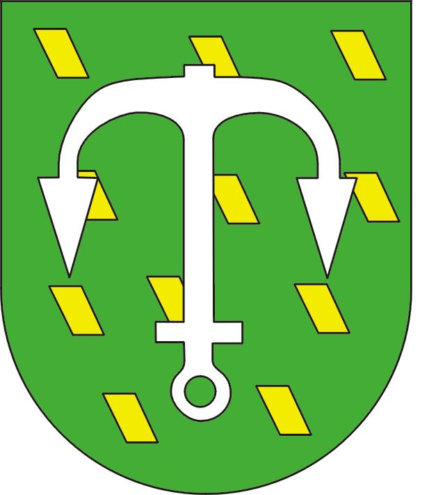 coat of arms, lordship Reipoltskirchen